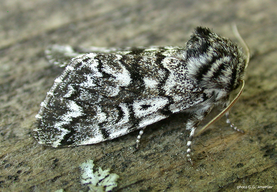 Semirelect Underwing (Panthea acronyctoides), live moth